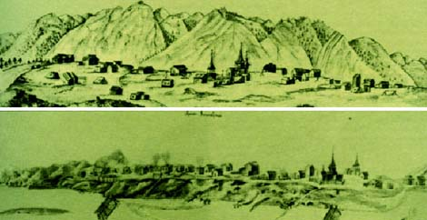 Zashiversk somewhere between 1785 and 1792